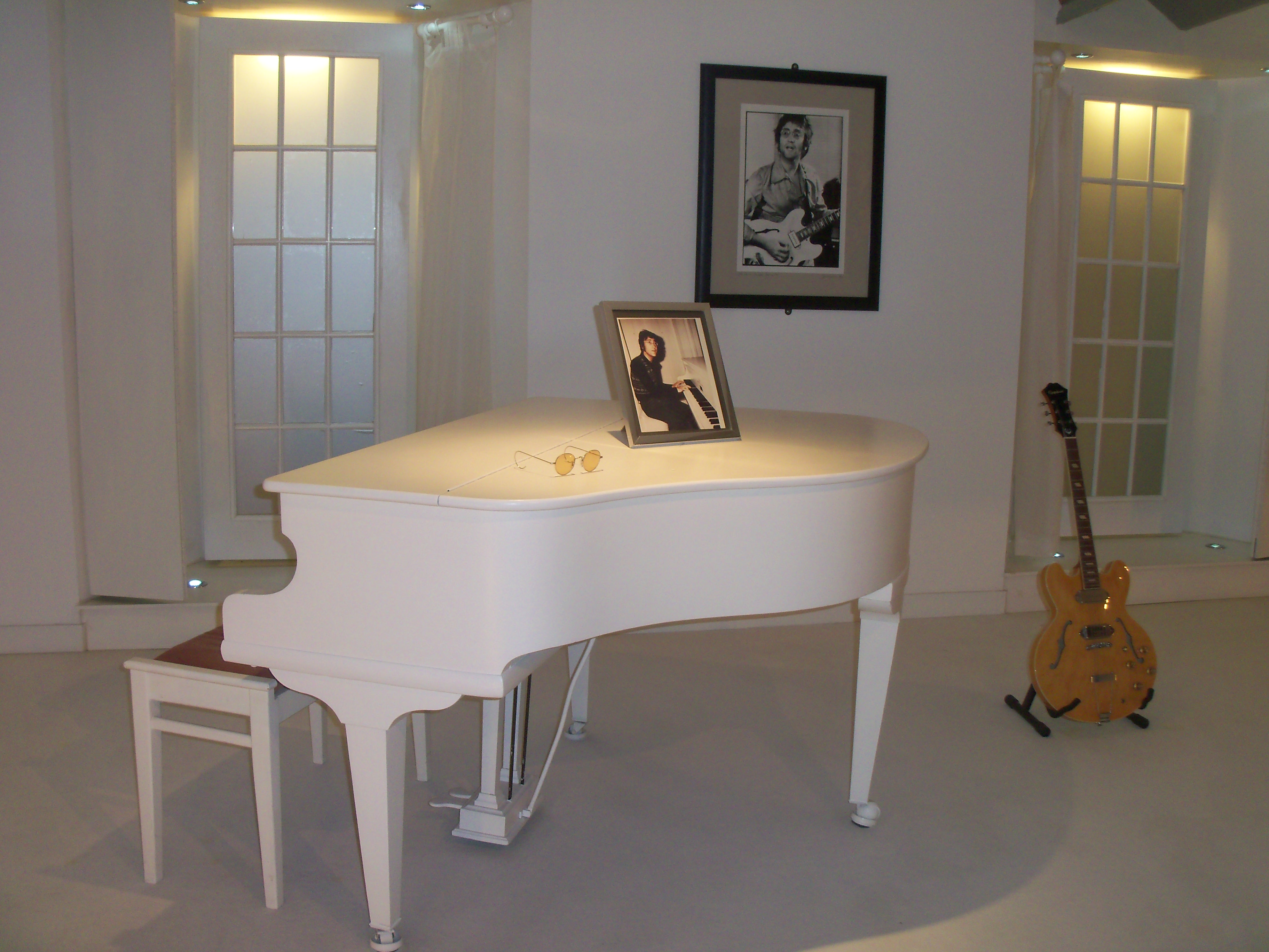 The lovely recreation of the room where most of "Imagine" was composed.